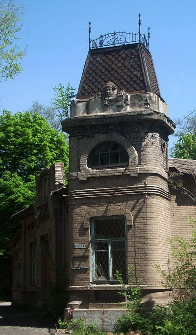 Private house, early 1900s